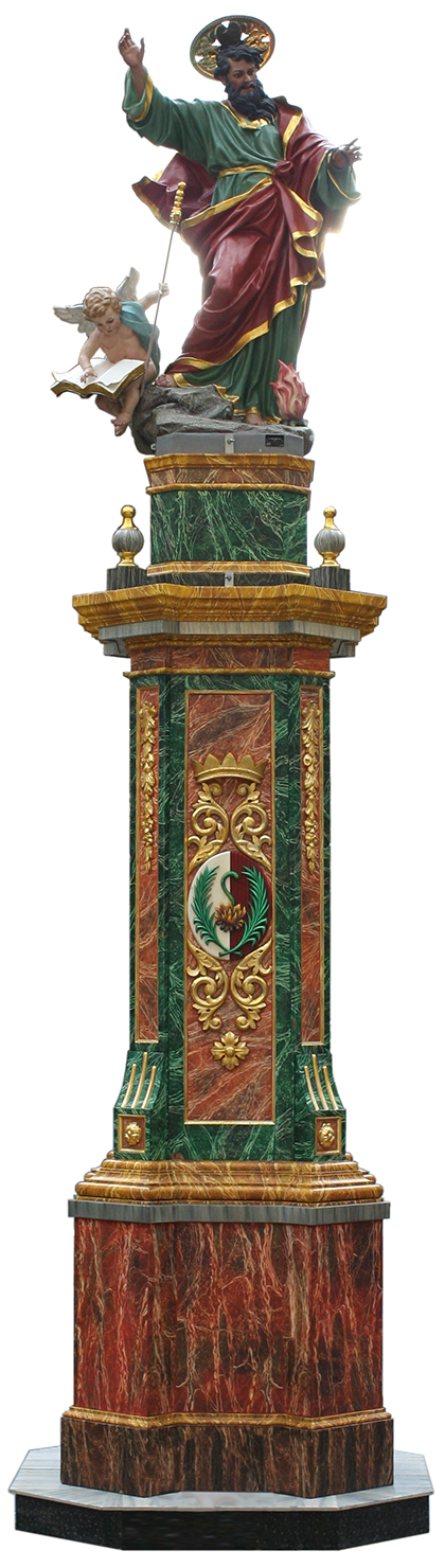 Malta, Valletta: St. Paul column (plaster and wood, painted) for St. Paul's Feast